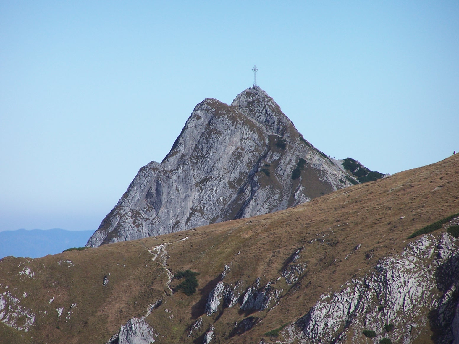 Giewont (Tatra Mountains)